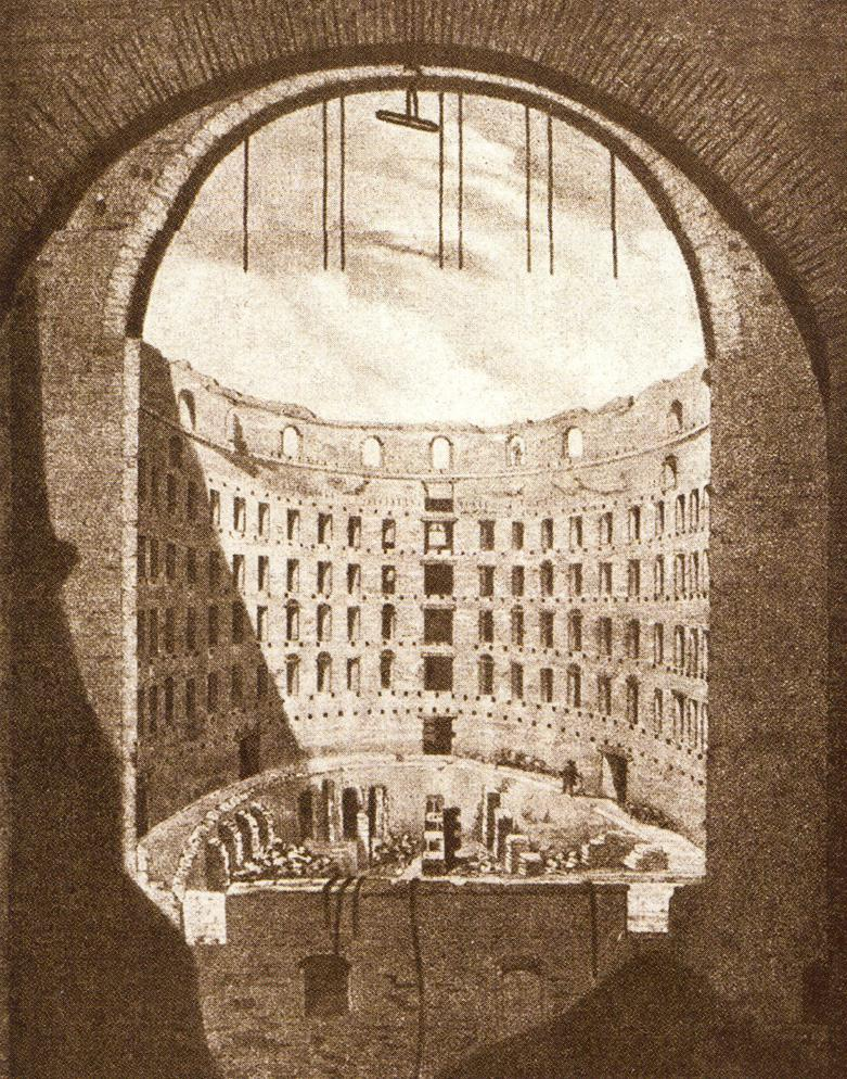 Teatre del Liceu, Barcelona, spain, after the fire of 1861